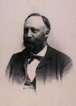 Danish architect and archaeologist Johannes Frederik (Frits) Christian Uldall (1839-1921)